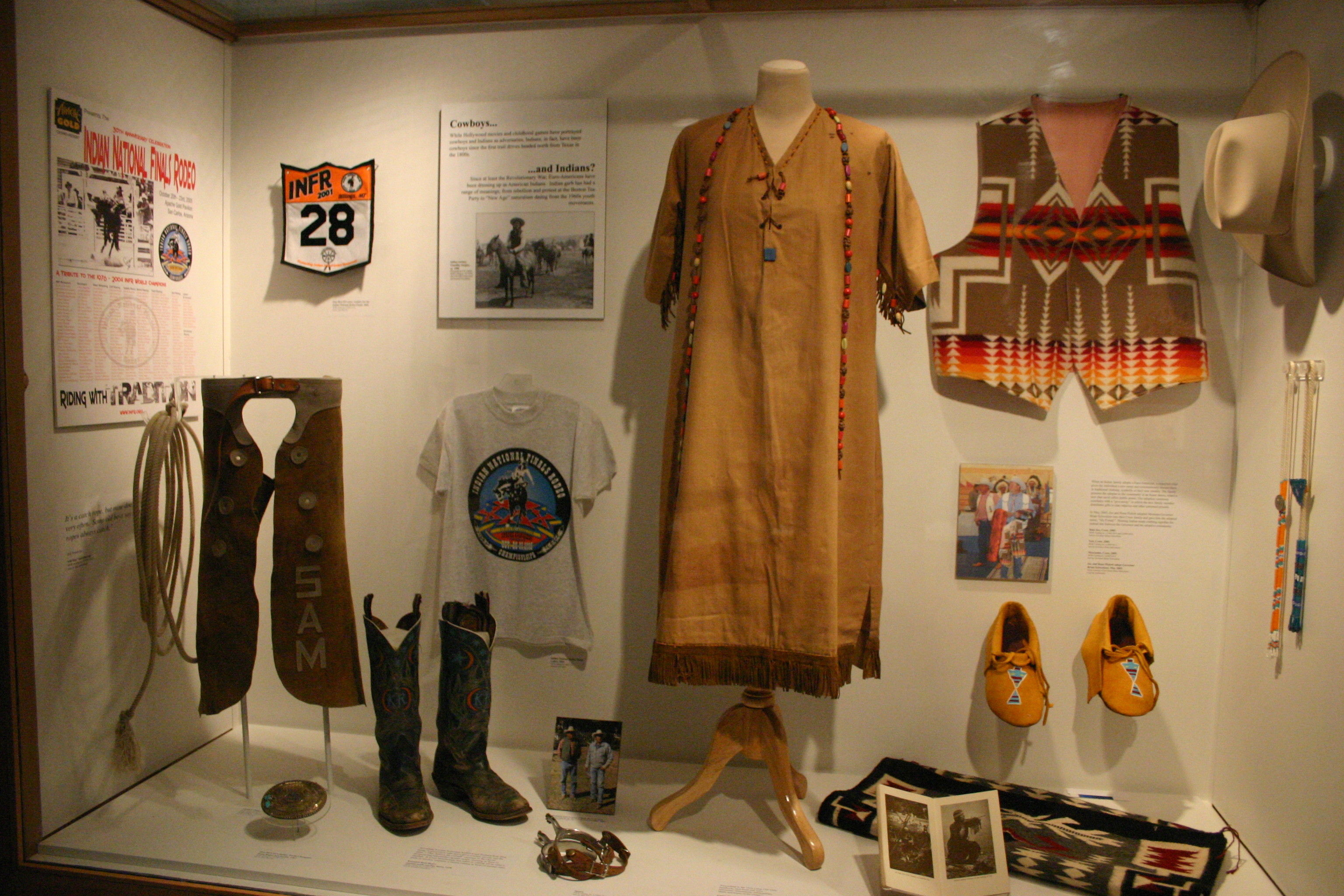 Museum of the Rockies, Bozeman, MT, Cowboys & Indians exhibit